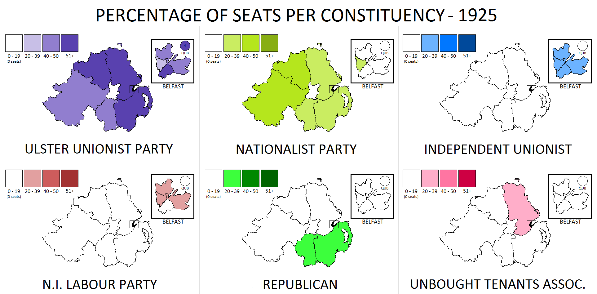 Map showing the results of the 1925 Northern Ireland general election.